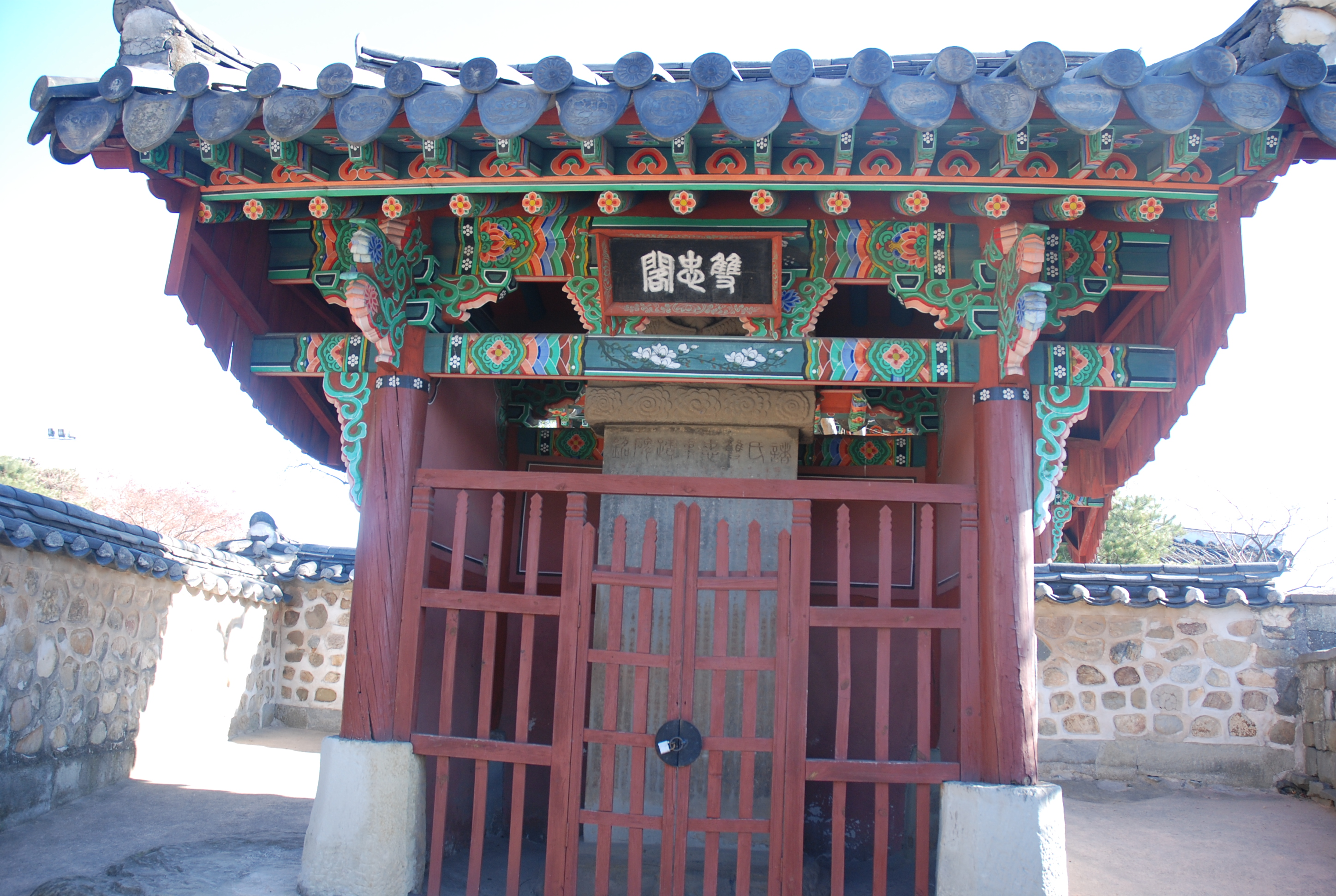 Ssangchung Twin Monument